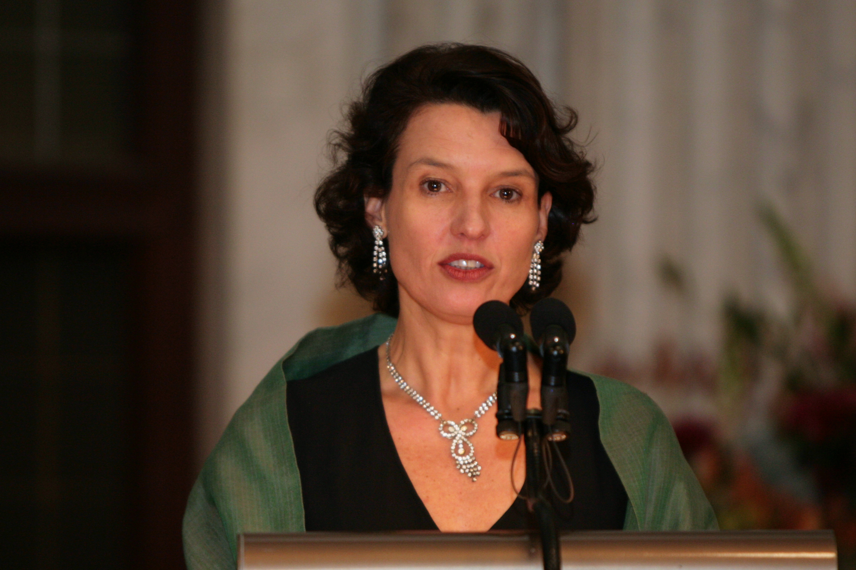 Bregtje van der Haak speaking at the Presentation Erasmus Prize 2015, awarded to the Wikipedia community by Stichting Praemium Erasmianum on 25 November 2015